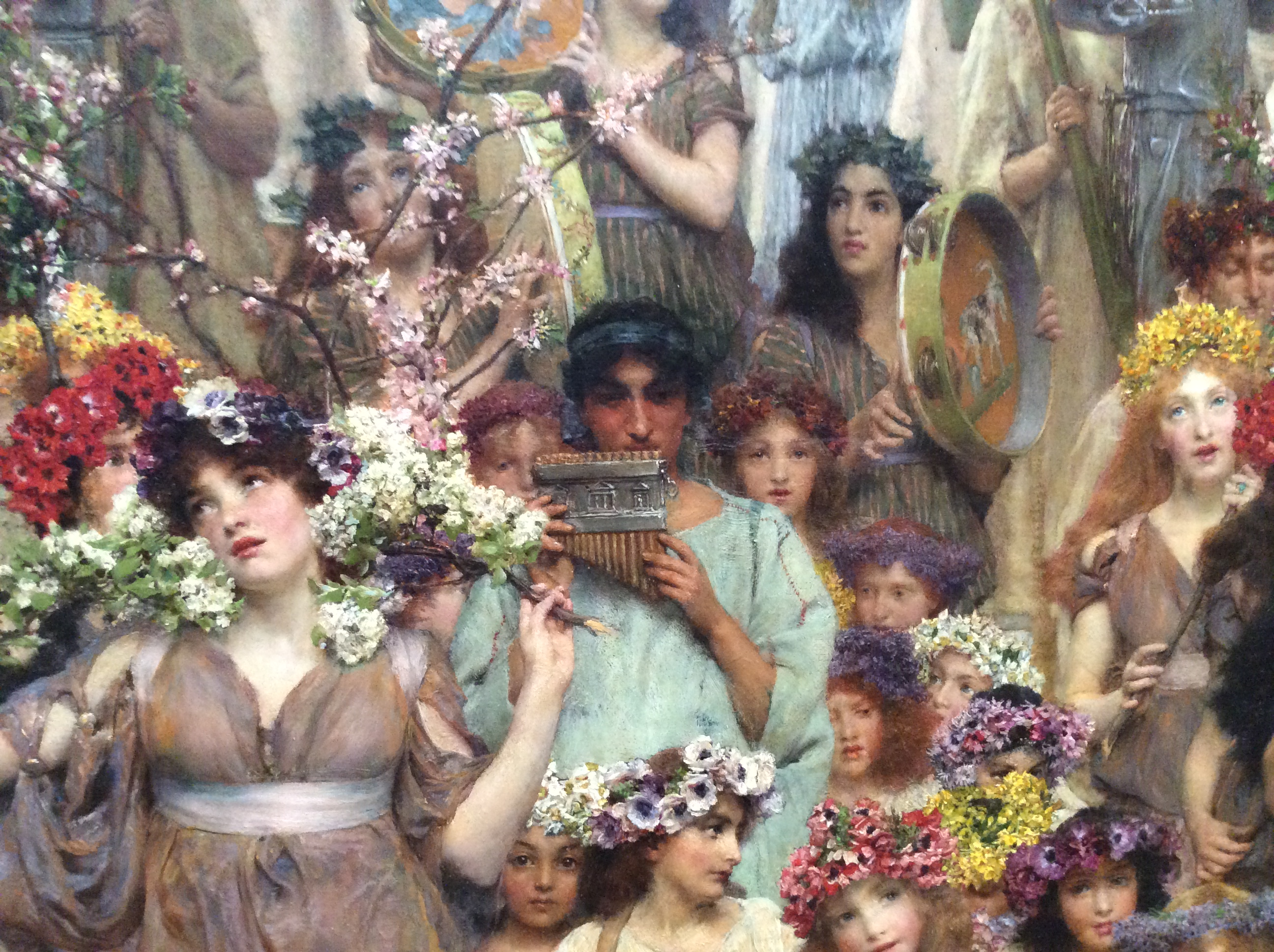 Detail of Lawrence Alma Tadema, Spring